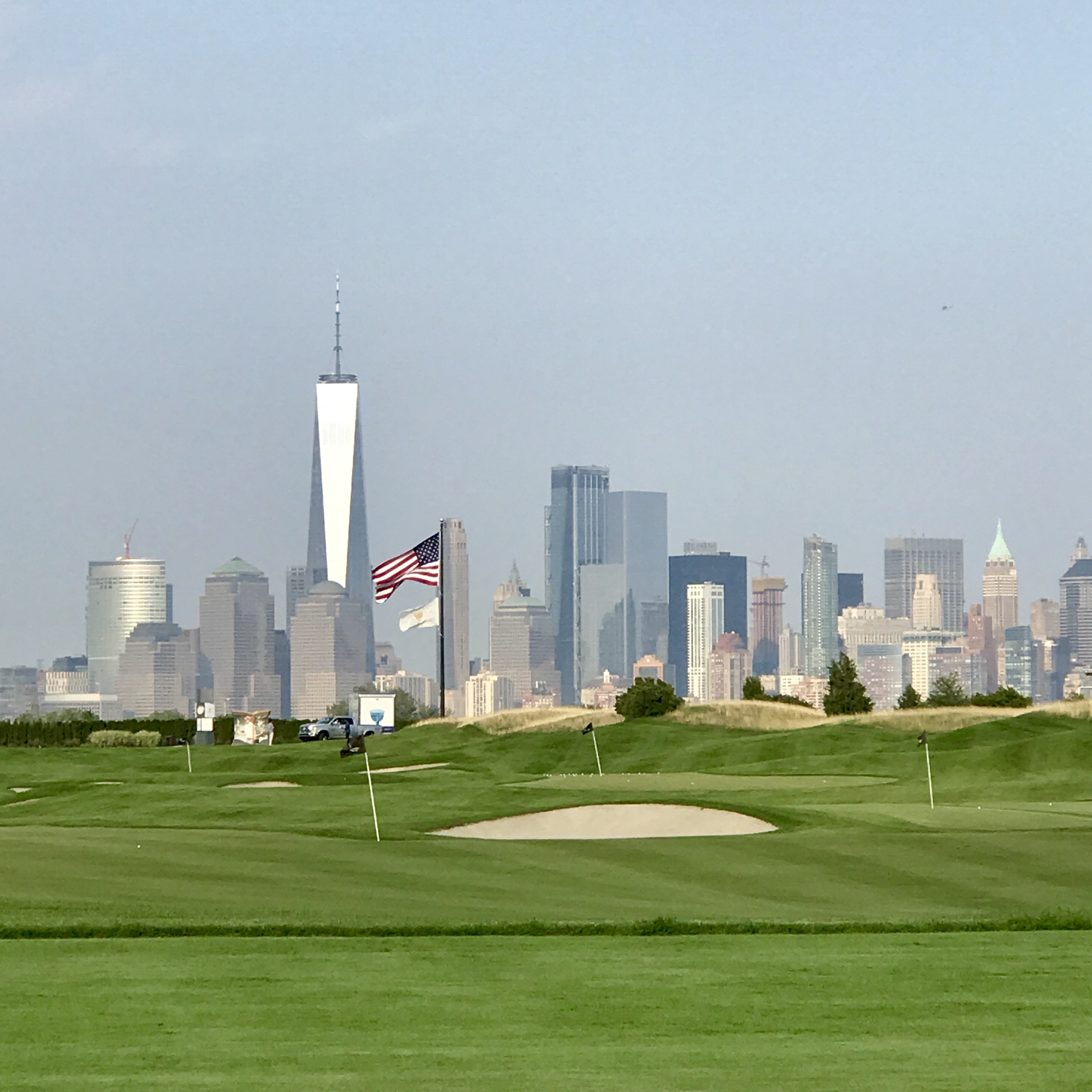 18th Hole at Liberty National Golf Course